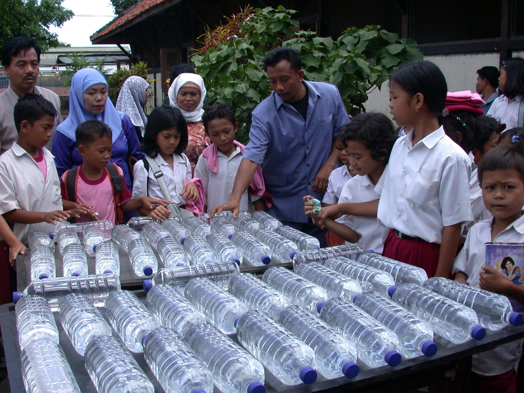 SODIS water disinfection in Indonesia using clear PET plastic beverage bottles 印尼的SODIS水消毒使用透明PET塑料饮料瓶